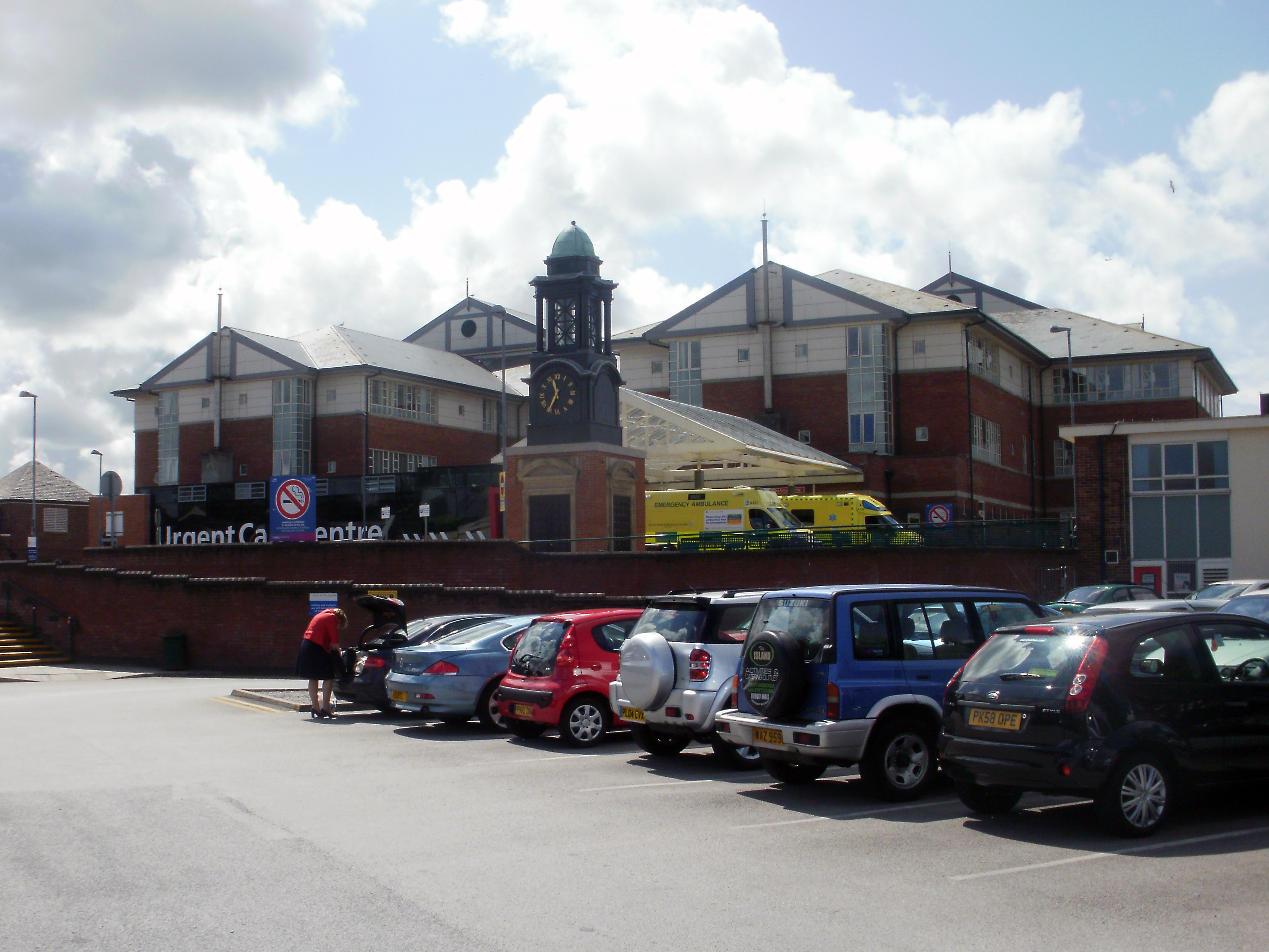 Blackpool Victoria Hospital in the seaside resort of Blackpool, Lancashire, England.